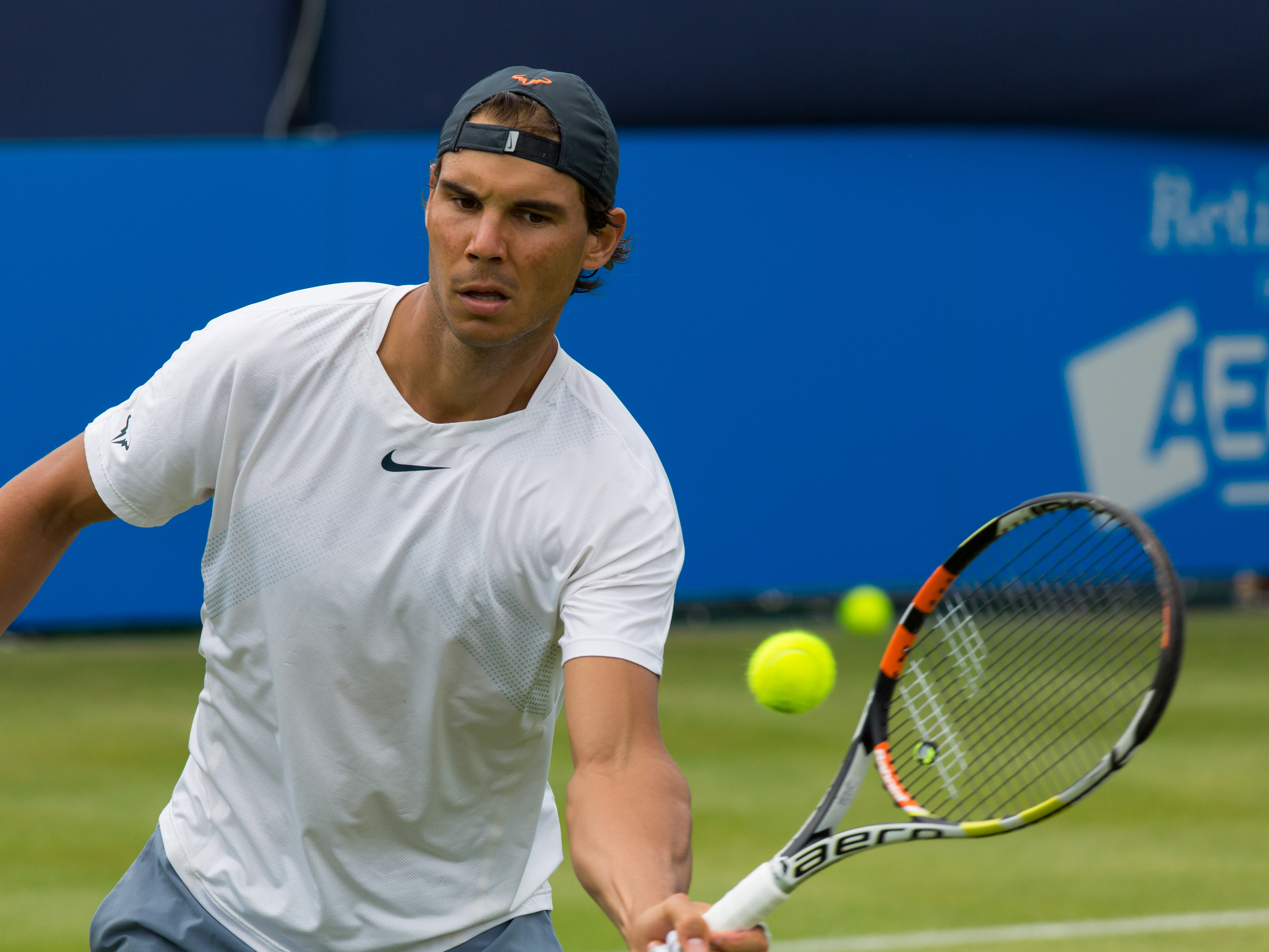 Rafael Nadal during practice at the Queens Club Aegon Championships in London, England.